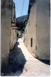 Road to Durrell's house, Bellapais. photo by User:Jeandunston